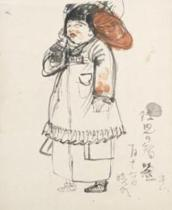 Sketch by Hashimoto Heihachi